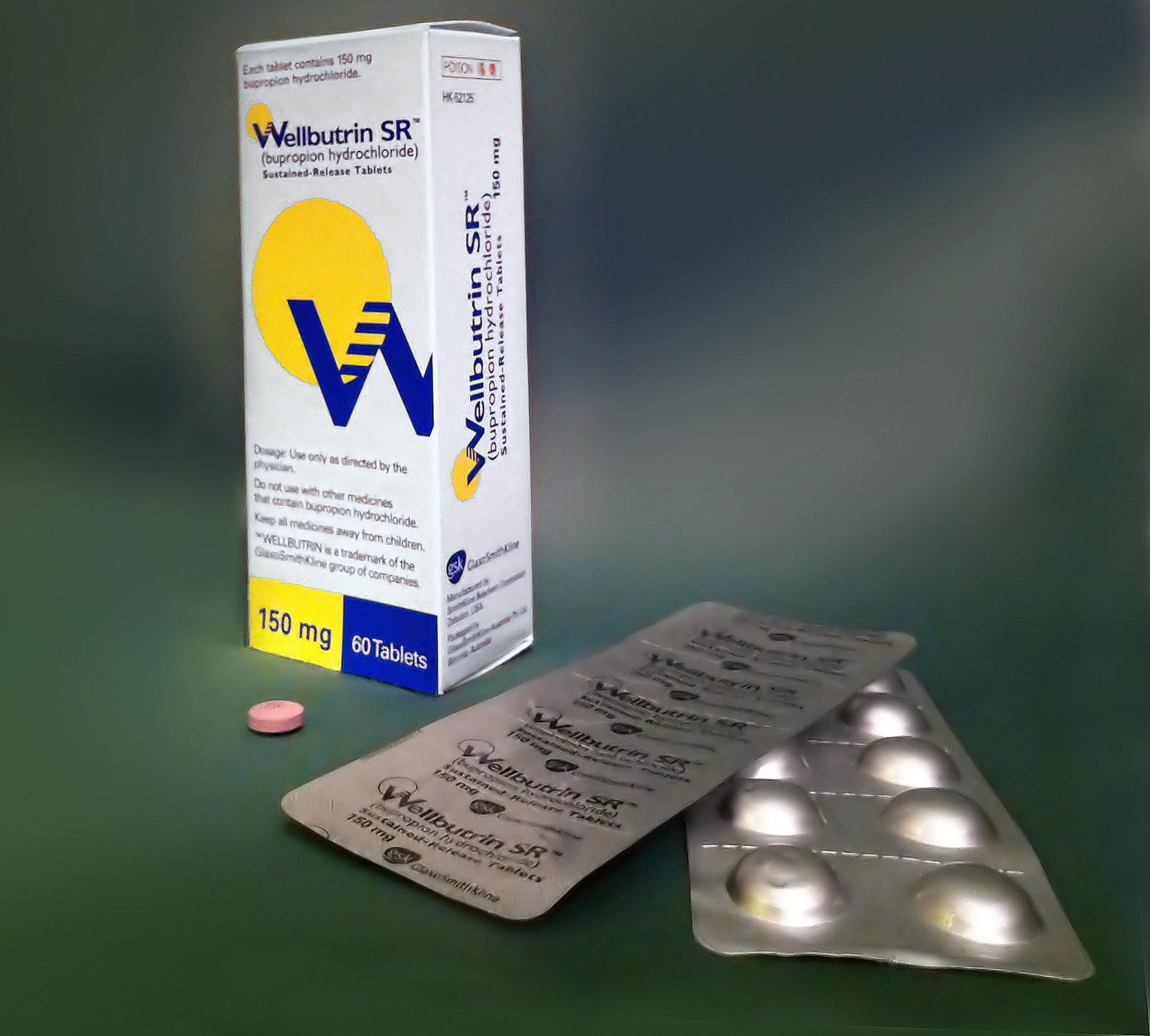 GlaxoSmithKline's Wellbutrin SR tablets 150 mg